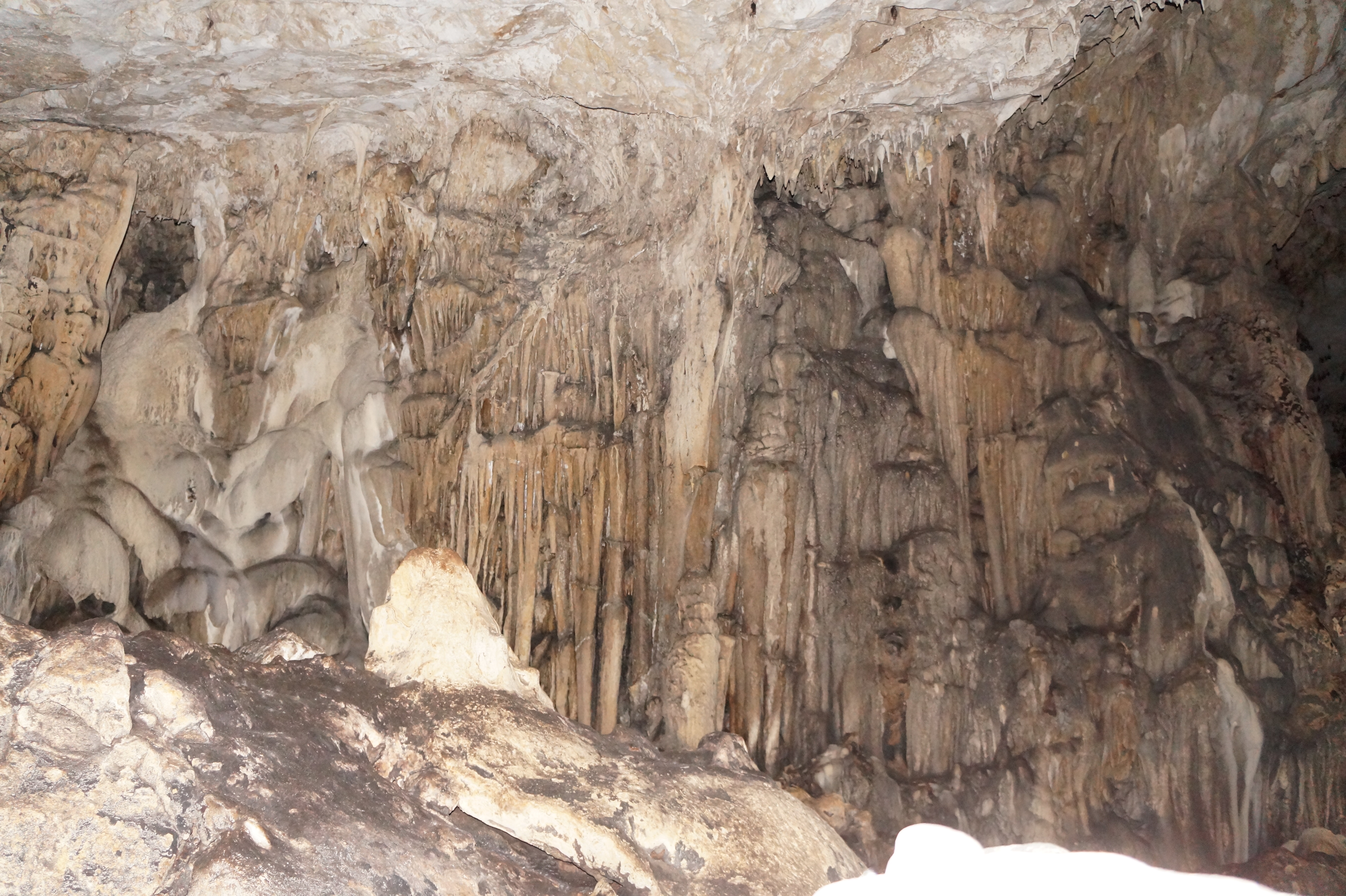 Laparnica cave in Porece region, Macedonia